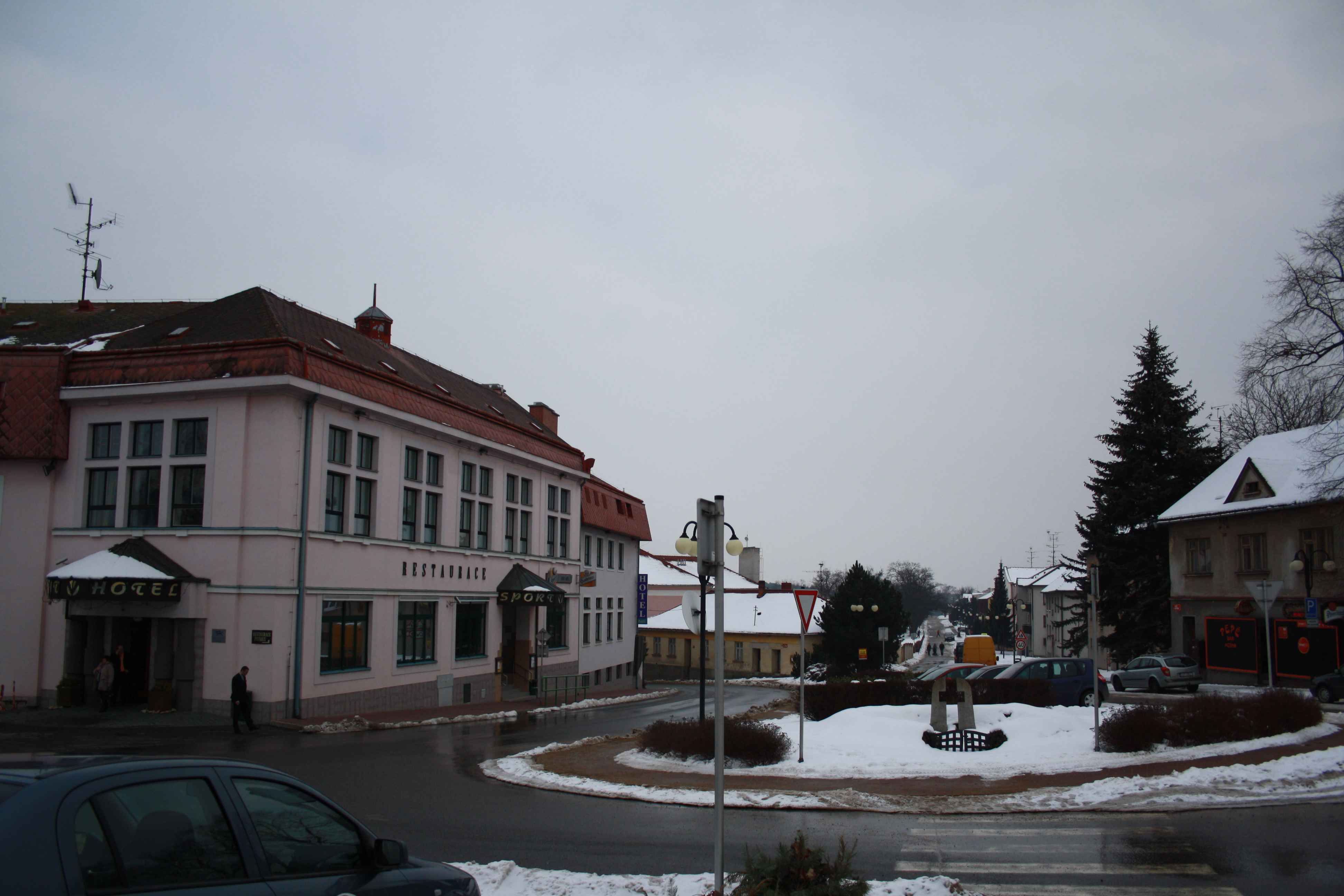 8th May Square in Hrotovice, Třebíč District.